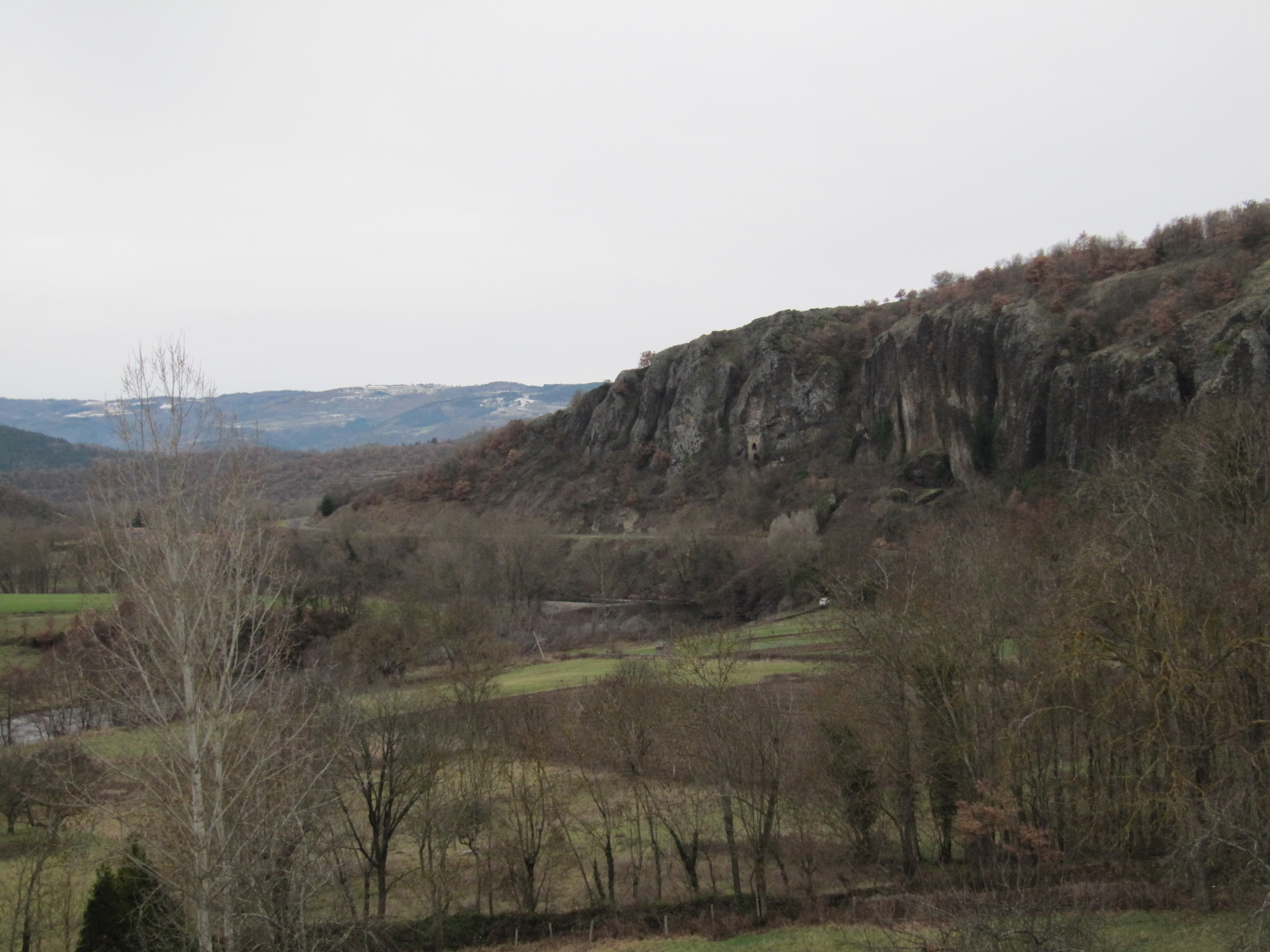 The rock banks of Blot in Cerzat (France).